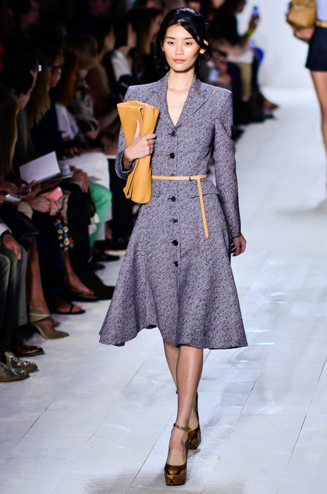 Ming Xi walks the runway at the Michael Kors Spring/Summer 2014 show at New York Fashion Week, September 2013.